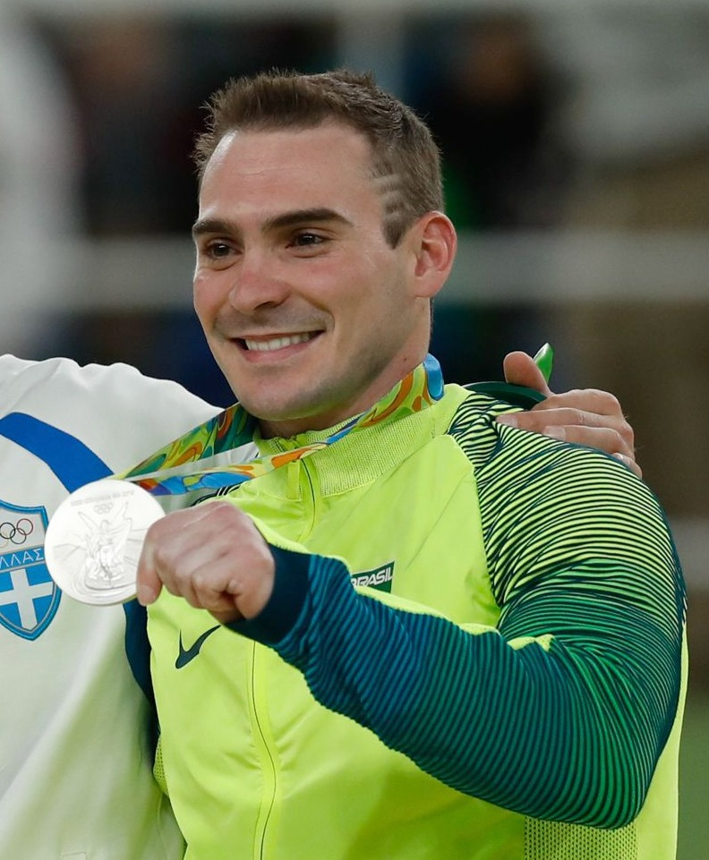 Competitions in gymnastics at the Olympics 2016. Discipline - rings.